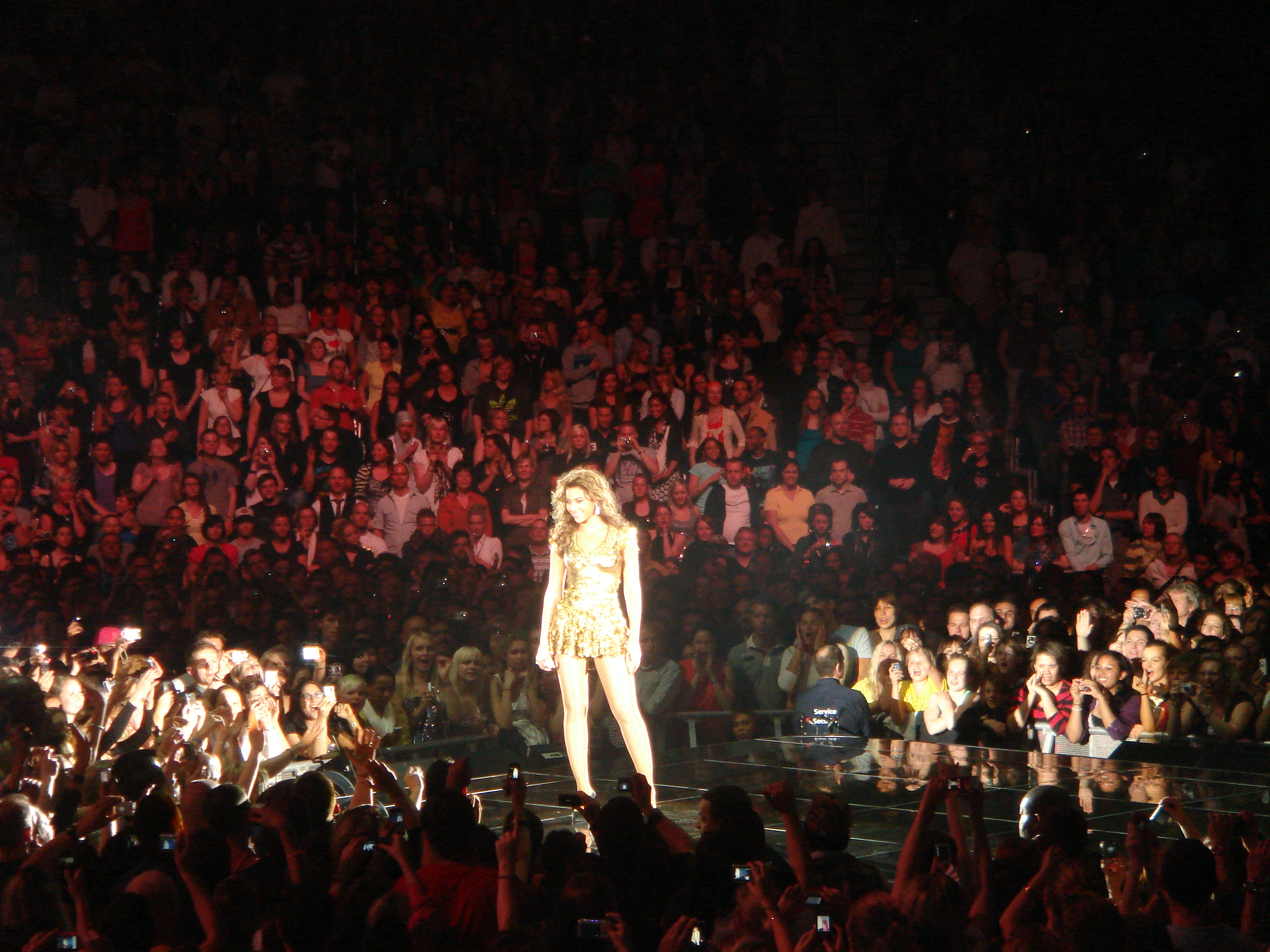 Beyonce I am... Tour 2009 Live in Berlin